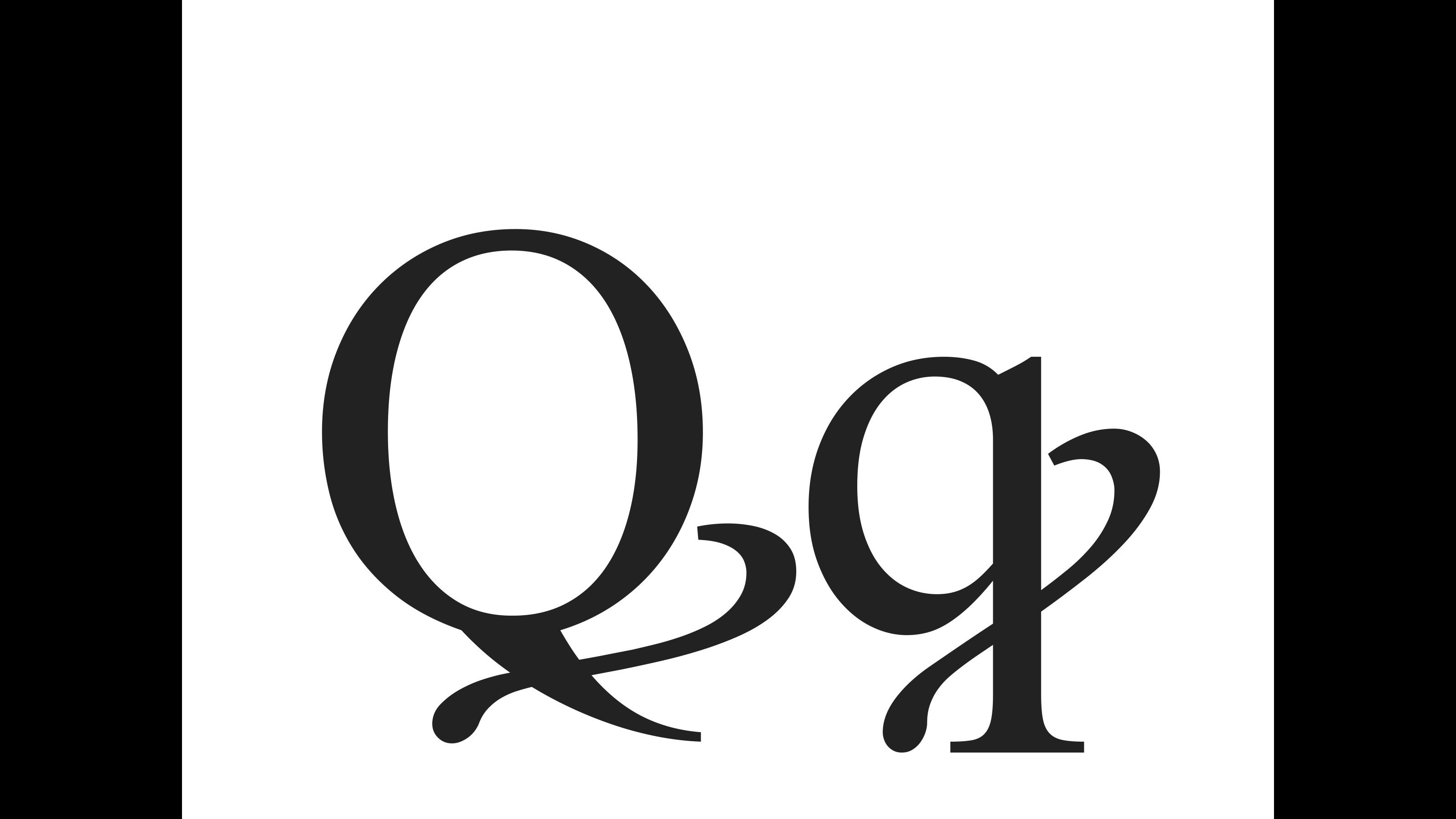 Q with diagonal stroke